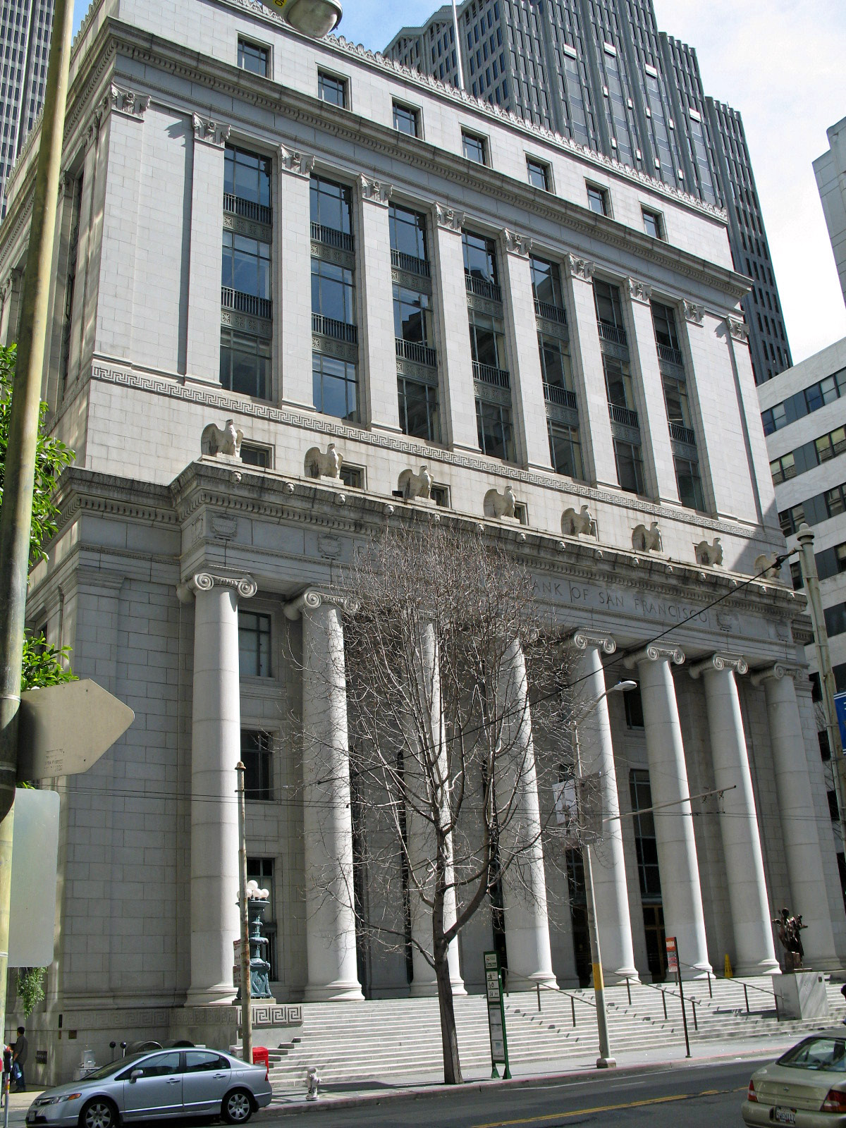 National Register of Historic Places in San Francisco, California. Federal Reserve Bank of San Francisco, 400 Sansome St., San Francisco, California, USA. Photographed 2008-03-02 by Mike Hofmann from northwest corner of Sansome and Commercial Sts.